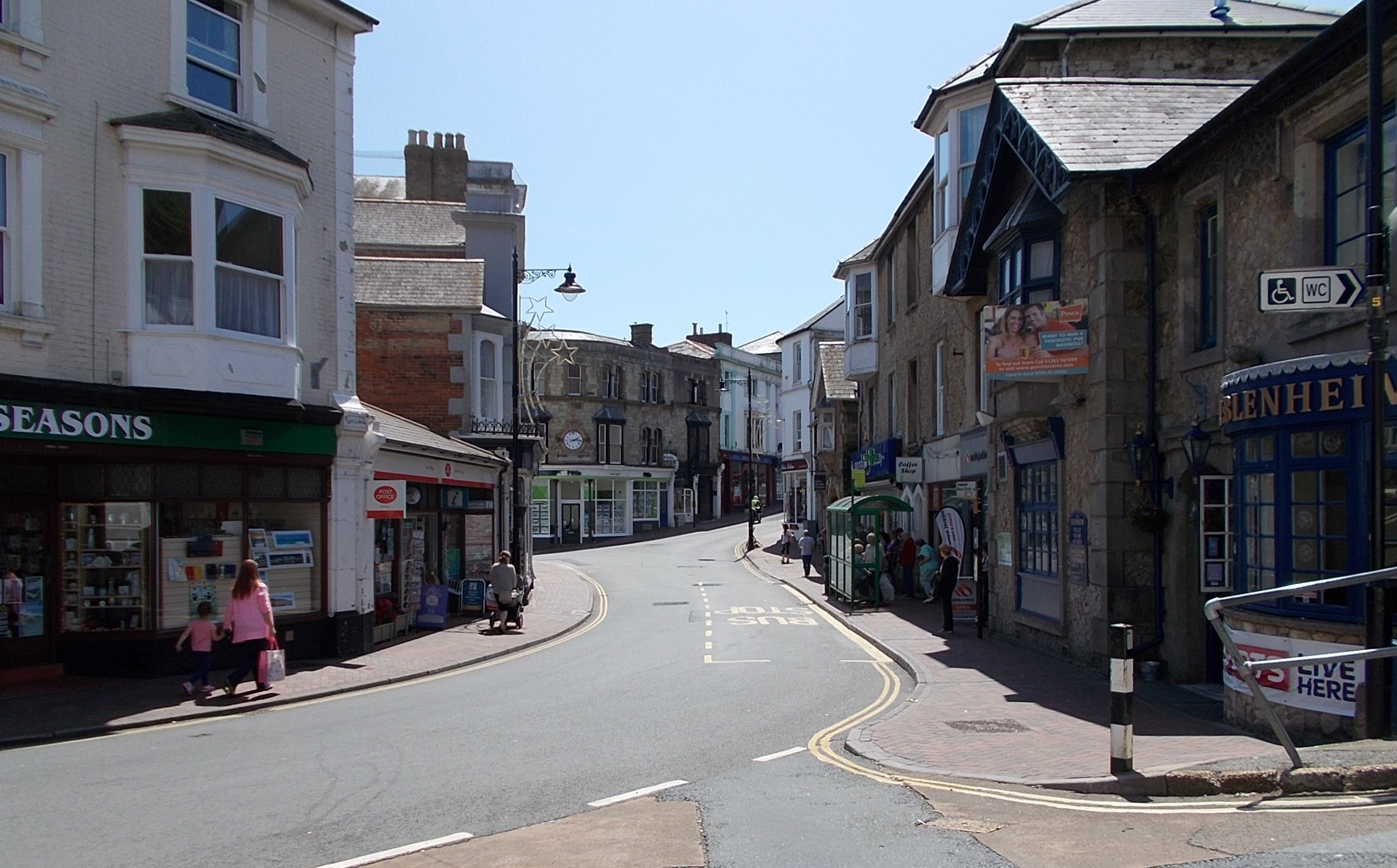 High Street, Ventnor, Isle Of Wight, UK